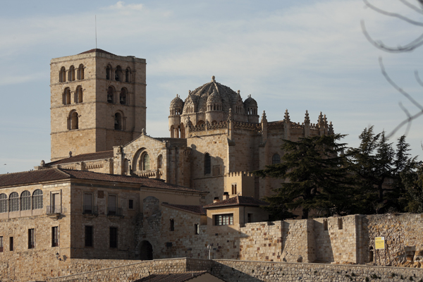 Catedral; Zamora, Castilla y León, Zamora, Spain; Vista del sur-este, torre, transept, cimborrio (cúpola; Ref: PM_070975_E_Zamora; Catedral de Zamora; Photographer: Paul M.R. Maeyaert; © Paul M.R. Maeyaert; ; Cultural heritage; Cultural heritage/Cathedral; Europeana; Europe/Spain/Zamora